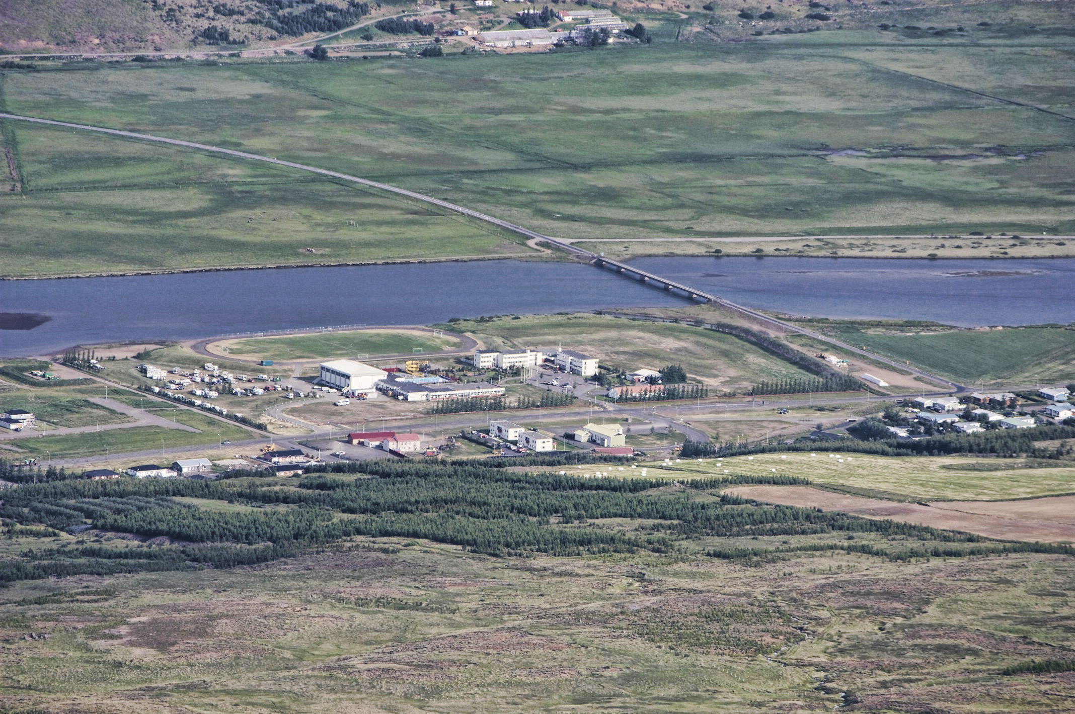 The view of the village Hrafnagil from the summit of Súlur.